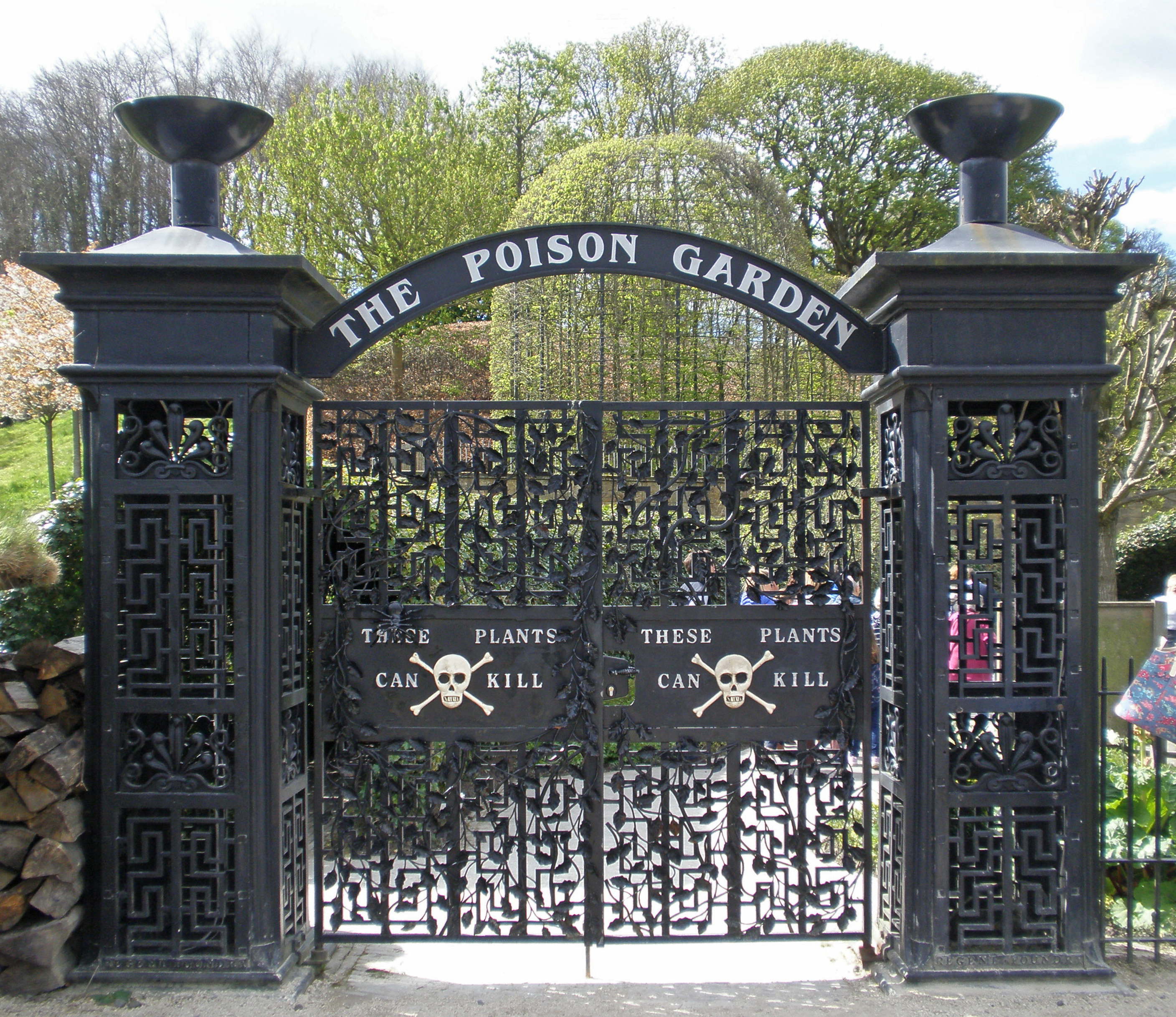 The Alnwick Garden The Alnwick Garden is a complex of formal gardens adjacent to Alnwick Castle in the town of Alnwick, Northumberland, England. The gardens have a long history under the Dukes of Northumberland, but fell into disrepair until revived at the turn of the 21st century. The garden now features various themed plantings designed around a central water cascade. Redevelopment of the garden was instigated by Jane Percy, Duchess of Northumberland in 1997, and has been led by Belgian landscape designers Jacques and Peter Wirtz. It is the most ambitious new garden created in the United Kingdom since the Second World War, with a reported total development cost of £42 million. The first phase of redevelopment, opened in October 2001, involved the creation of the cascade and initial planting of the gardens. In 2004 a large 6,000 sq ft (560 m2) tree house complex, including a cafe, was opened. It is one of the largest treehouses in the world. A pavilion and visitor centre designed by Sir Michael Hopkins and Buro Happold opened in May 2006, with capacity for 1,000 people. The pavilion and visitor centre feature a barrel-vaulted gridshell roof. The gardens include several water features as well as architectural landscaping, topiary and decorative gates. A garden featuring intoxicating and poisonous plants was added in February 2005. Species of the Poison Garden include Strychnos nux-vomica (source of strychnine), hemlock, Ricinus communis (source of harmless castor oil but also deadly ricin), foxglove, Atropa belladonna, Brugmansia and Laburnum. The mission of the Poison Garden also includes drug education, with featured plantings of cannabis, coca and the opium poppy Papaver somniferum